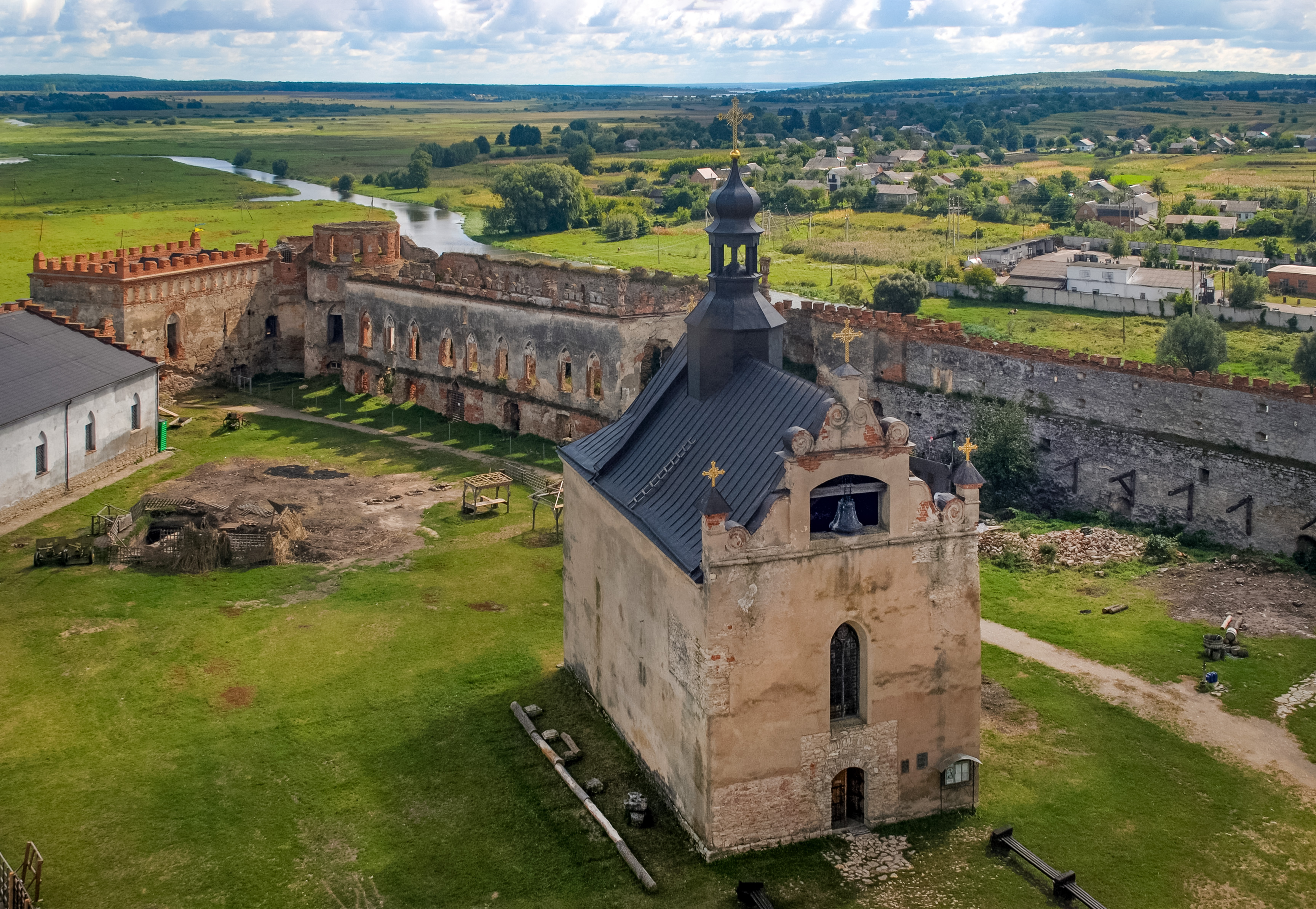 Saint Nicholas Church and ruins of the palace in 16th-century Medzhybizh Fortress (architectural monument of the national significance №764). View from Knights' Tower. Medzhybizh, Khmelnytsky Oblast, Ukraine